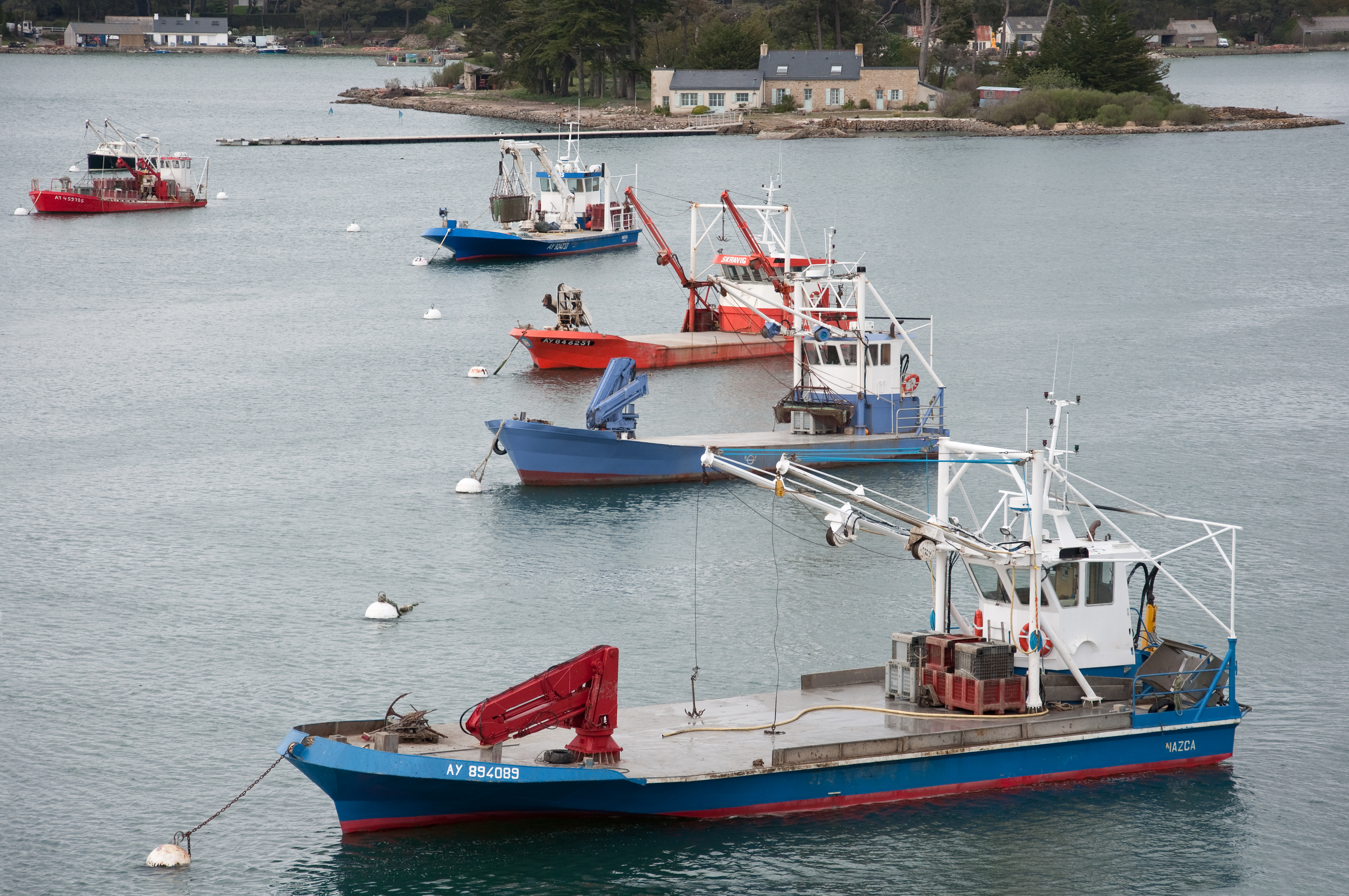 Moored oyster farming boats in the Crac'h river, seen from the Kerisper bridge (Morbihan, Brittany, France).